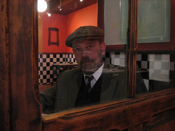 The writter Luis M.ª Díez Merino.